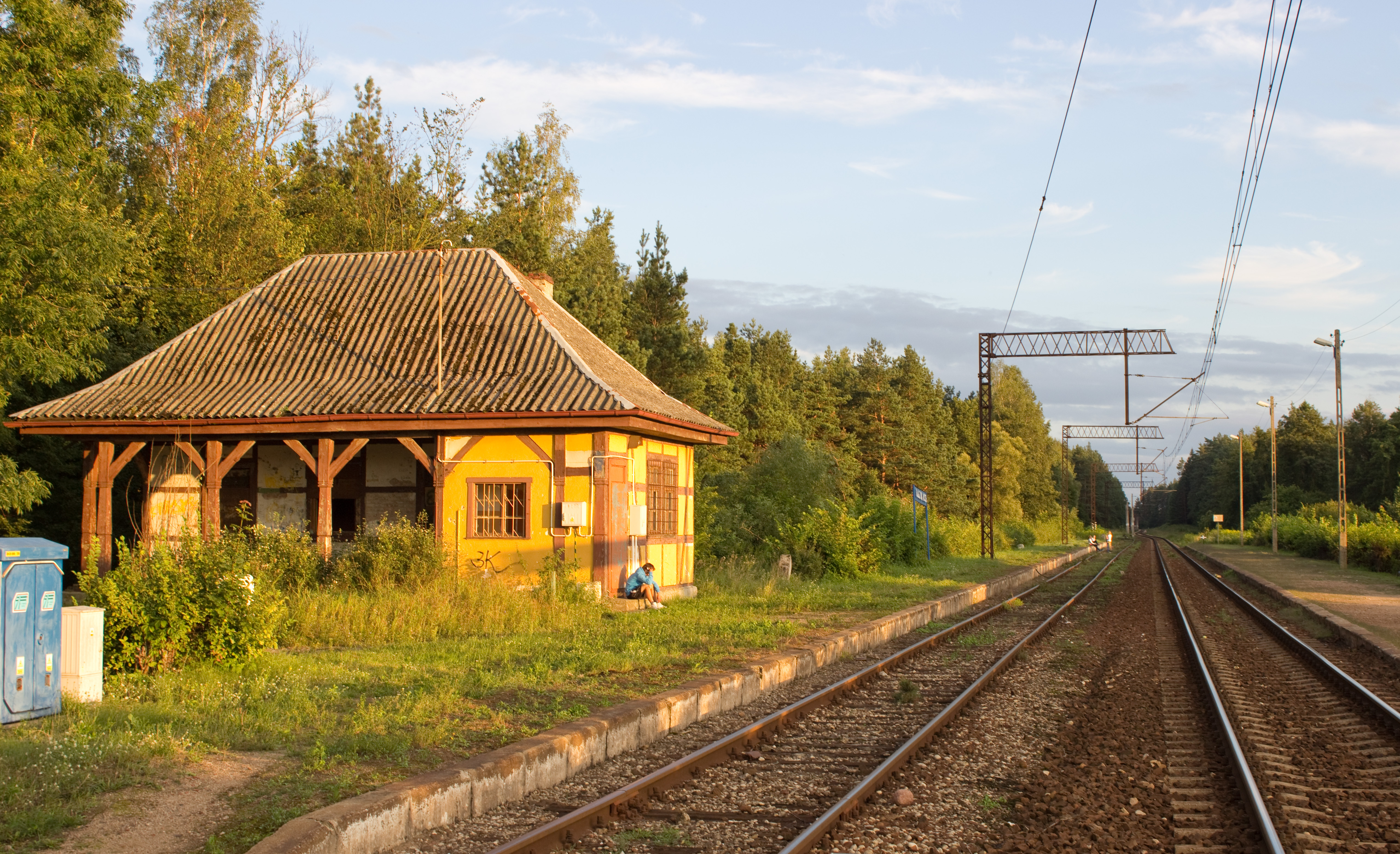 Train station, Ełk Szyba Wschód, gmina Ełk, powiat ełcki, Warmian-Masurian Voivodeship